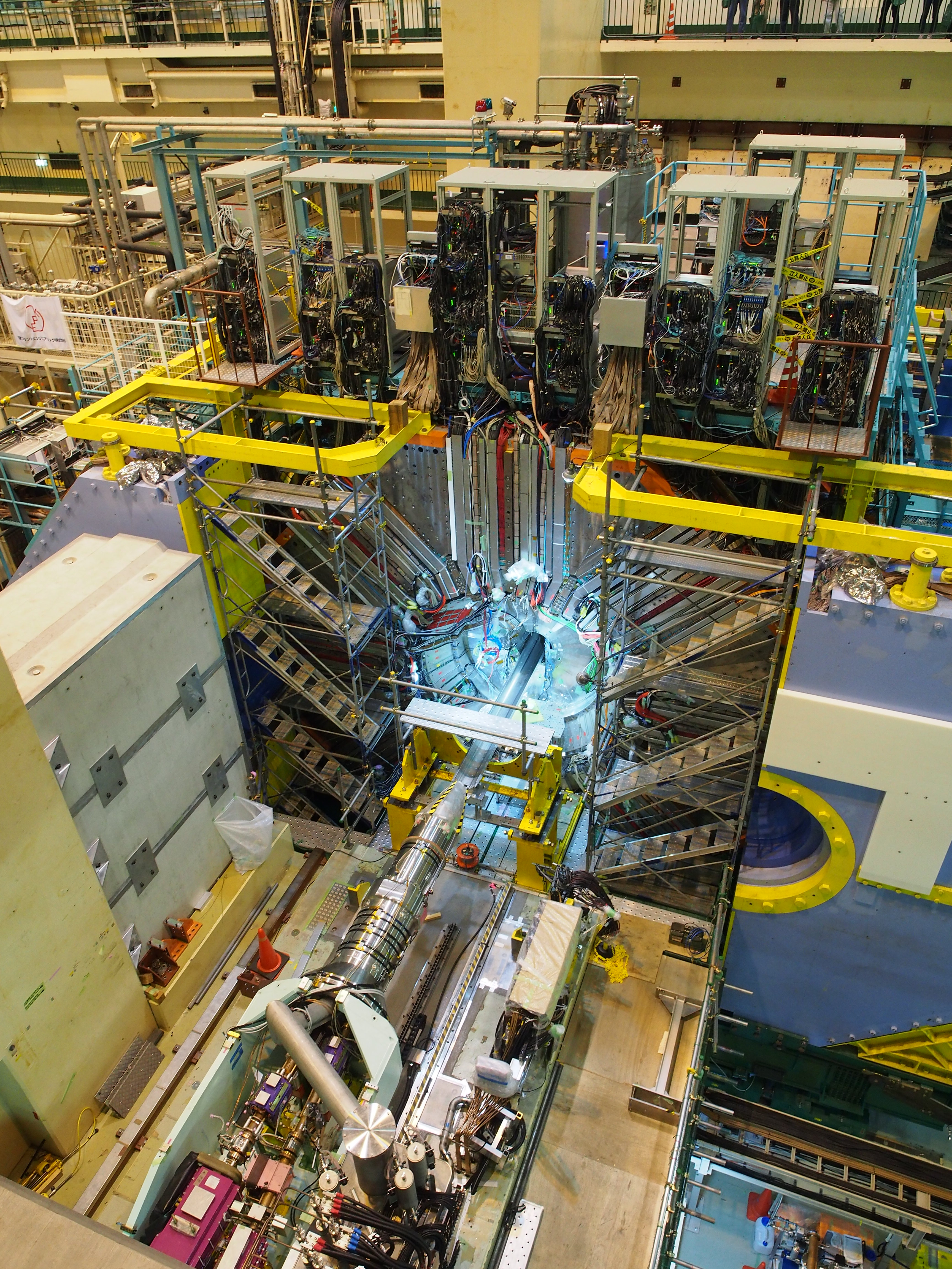 Belle II detector of the SuperKEKB electron-positron accelerator of KEK (High-Energy Accelerator Research Organization), in Tsukuba, Ibaraki Prefecture, Japan. Photographed on the open house day of KEK.